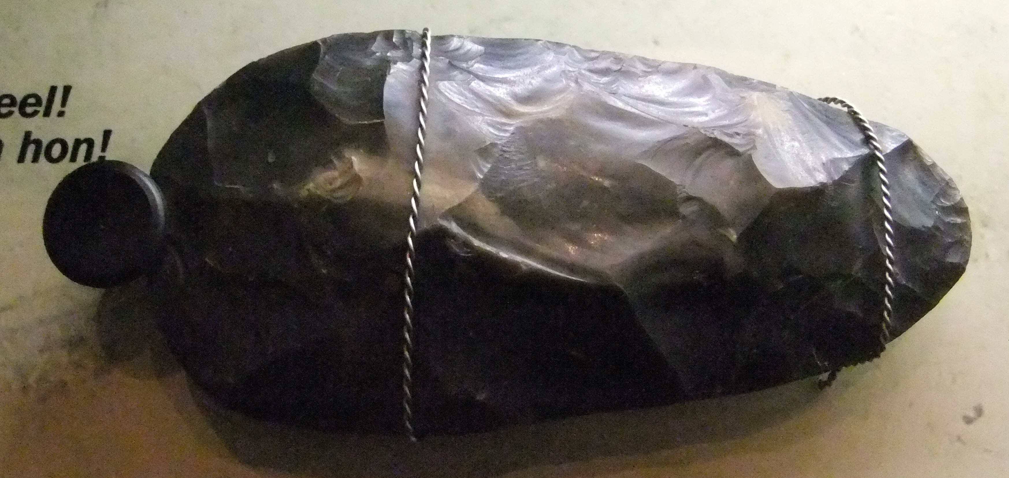 Mesolithic flaked hand axe, Wrexham Museum, Wales.